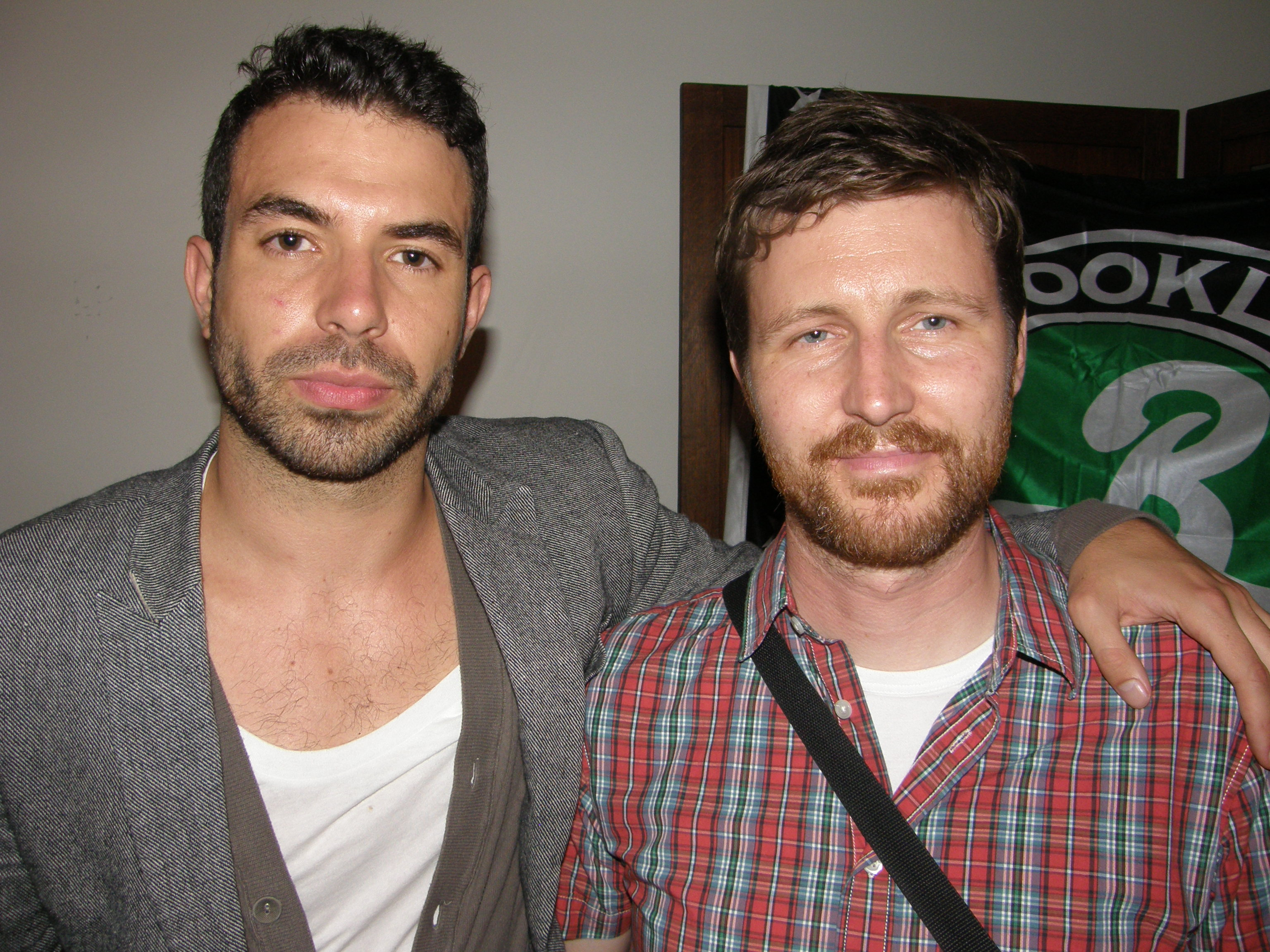 WEEKEND actor Tom Cullen & director Andrew Haigh